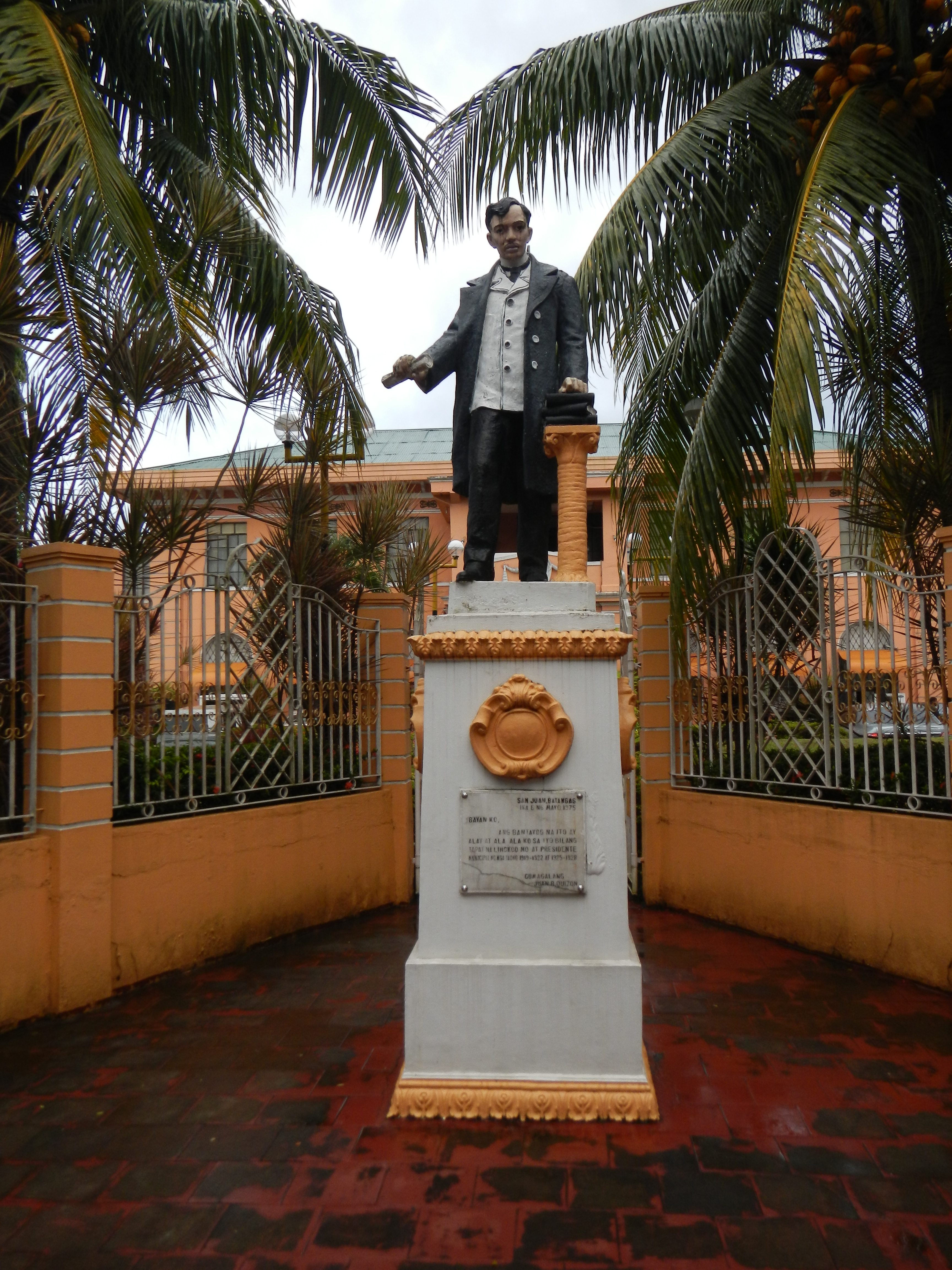 Upload Wizard photos of - May 6, 1975 marble marker and historical marker, Jose Rizal Monument and the town's Lambanog dipper statue, symbolizing its Lambanog wine industry among others in the presently being finished Covered Court, gymnasium, Plaza and Park in front of the - San Juan Municipal Hall Complex, Offices and important attractions, Poblacion San Juan [1] -Coordinates: 13°49'30"N 121°23'47"E San Juan, Batangas[2] (a first class municipality on the Philippines in the province of Batangas; the 2010 census, it has a population of 94,291 people politically subdivided into 42 barangaysWebsite attraction is Acautico Resort in Laiya [3]).